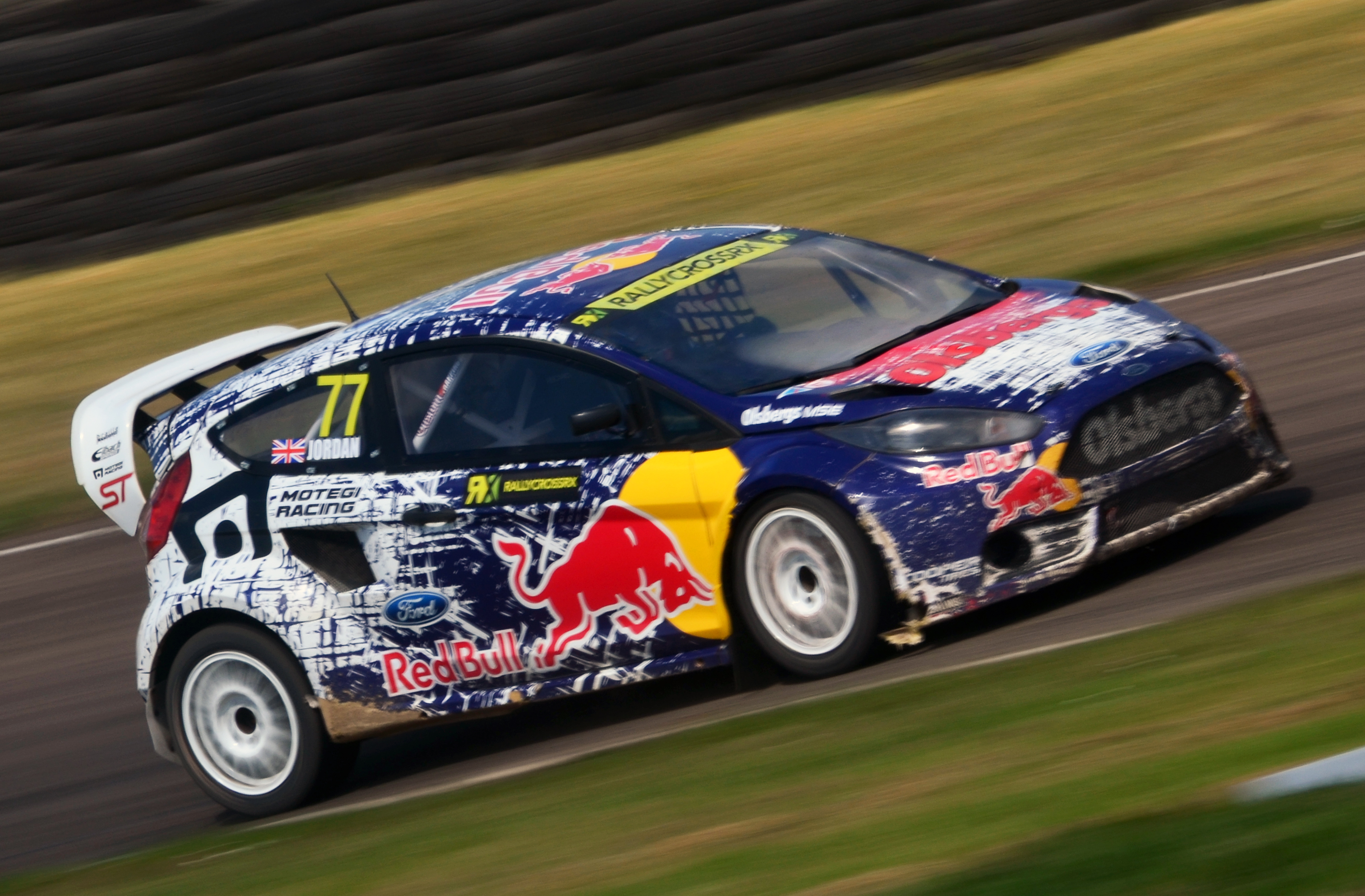 British Touring Car champion Andrew Jordan returns to rallycross at Lydden Hill for round 2 of the 2014 FIA World Rallycross Championship.